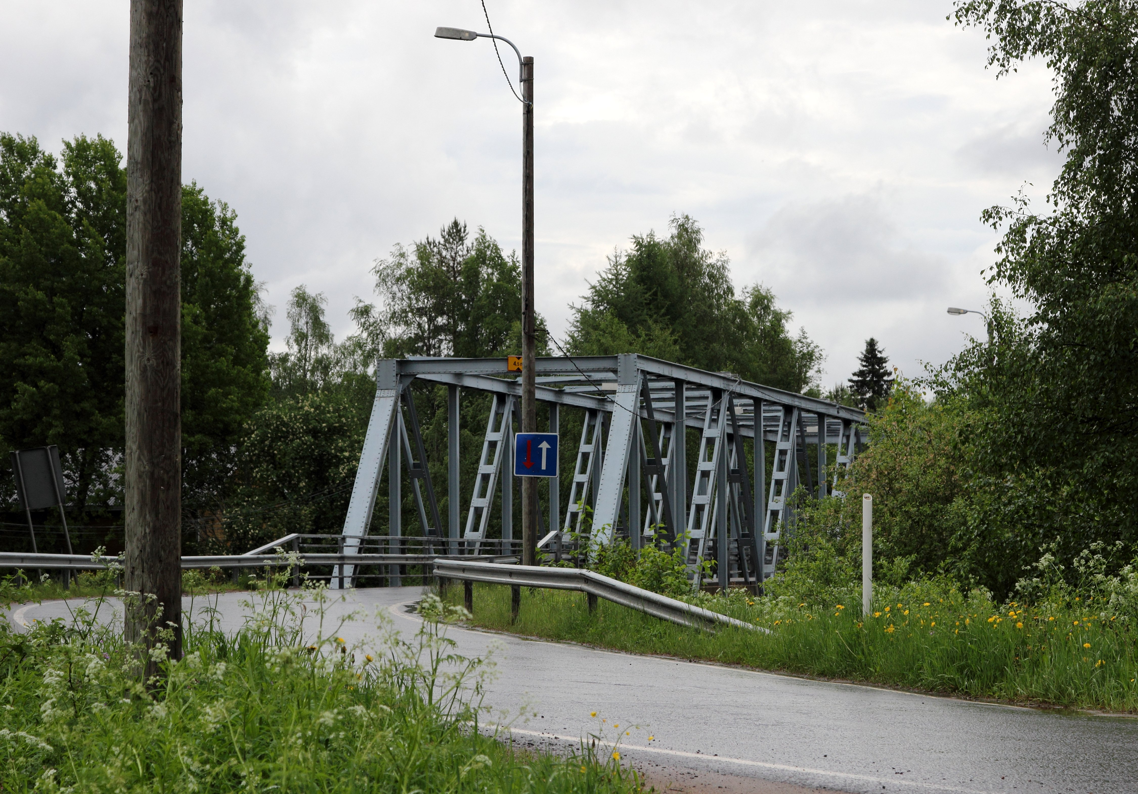 The Aittokoski bridge is a iron truss road bridge over the Kiiminkijoki in Vesala, Oulu. The bridge was built in 1975.